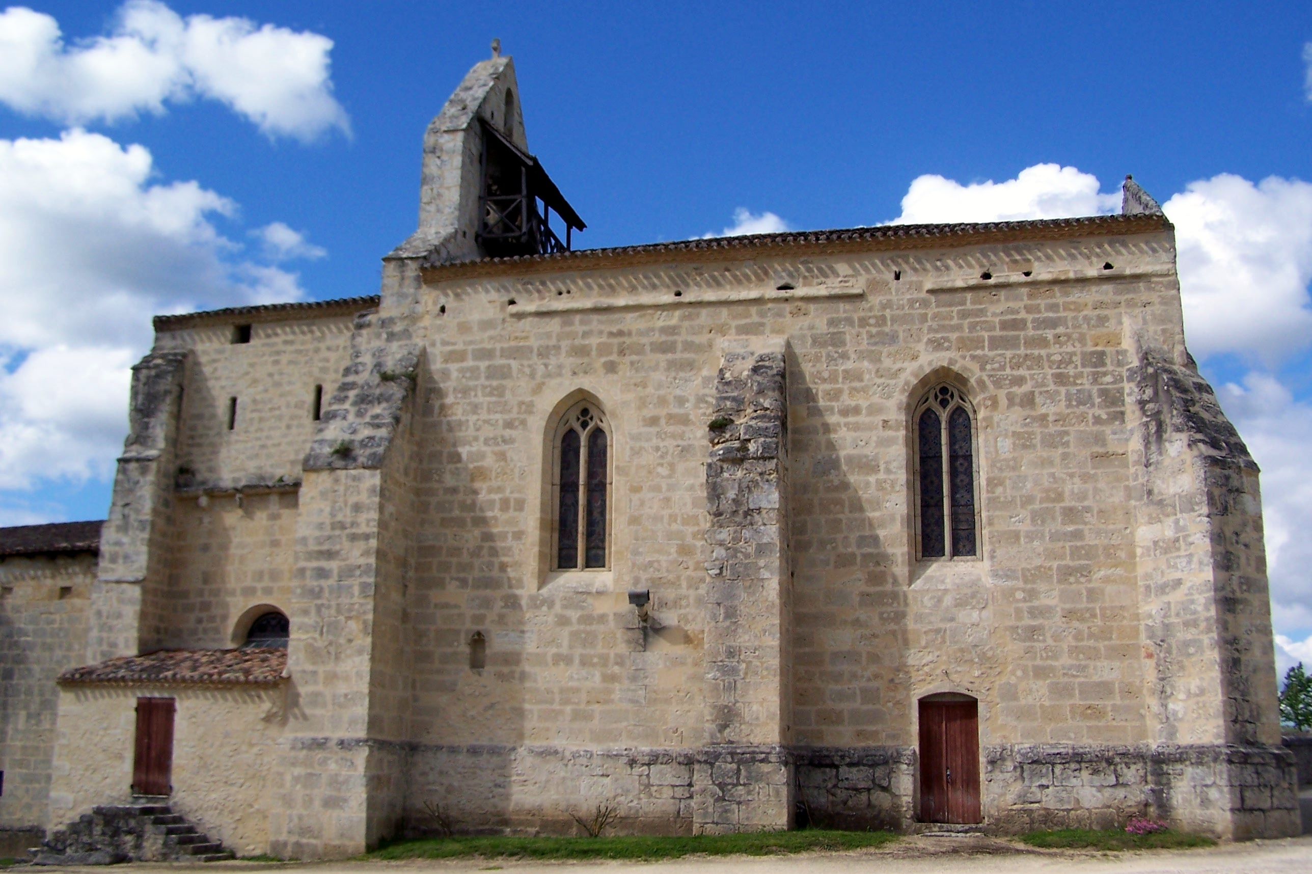 Church Saint-Hilaire de Rimons (Gironde, France)